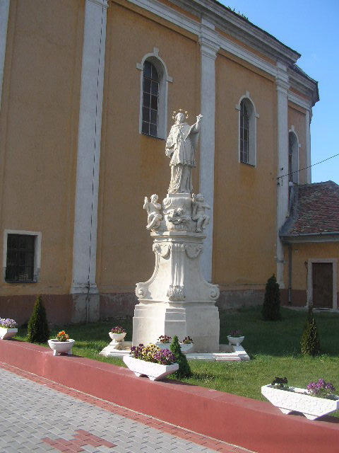 Bakonyszombathely; Statue of John of Nepomuk This is a photo of a monument in Hungary, Identifier: 6118